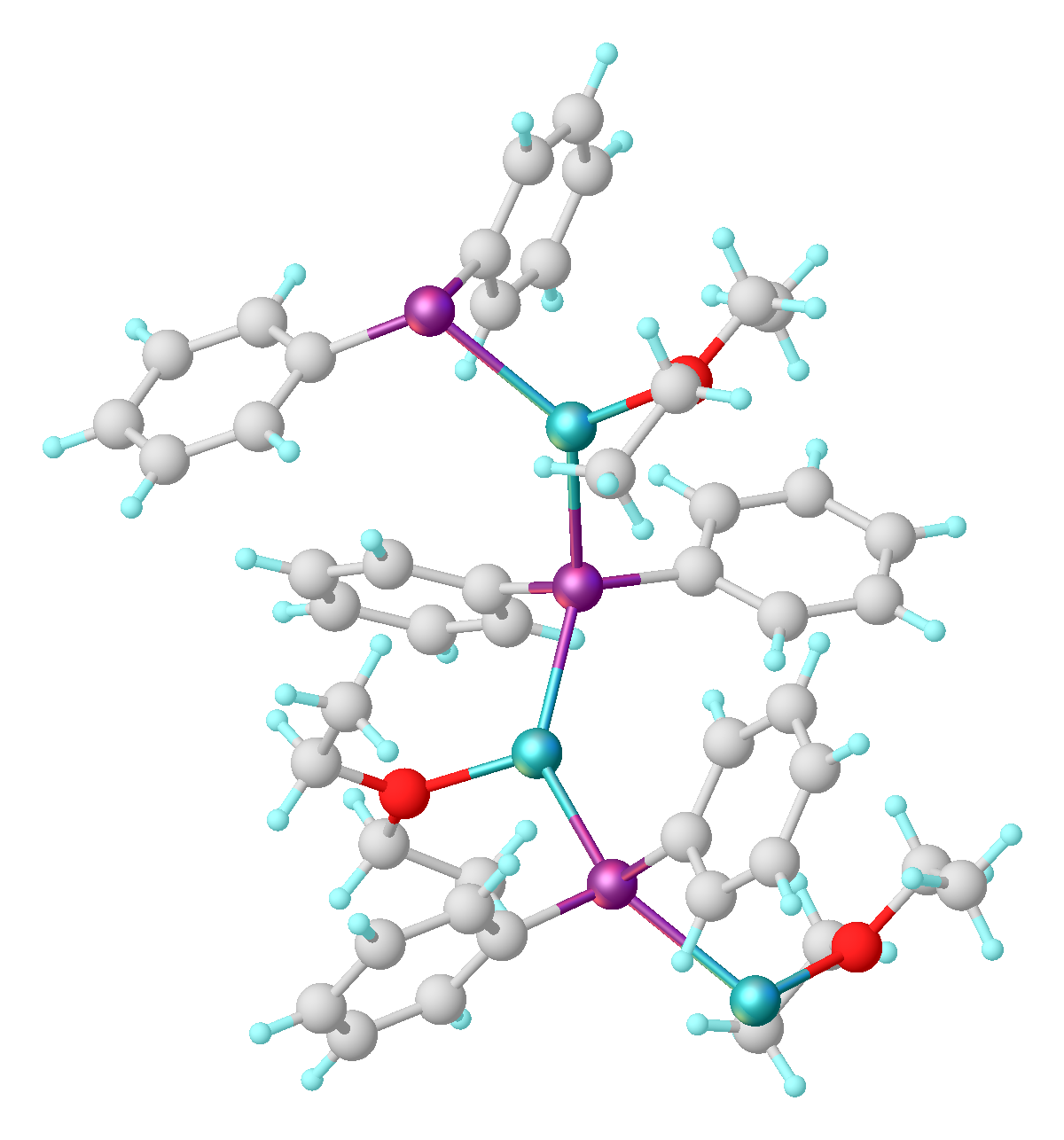 LiPPh2(Et2O) per doi 10.1021/ic00228a034